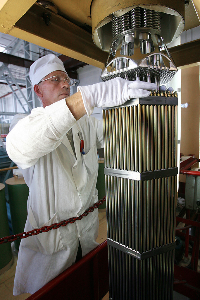 “Fuel assembly final inspection”. Final check of delivery-ready nuclear reactor fuel assemblies at the Novosibirsk Chemical Concentrate Works